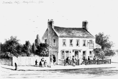 Illustration of the Yorkshire Stingo Inn, Marylebone, London.